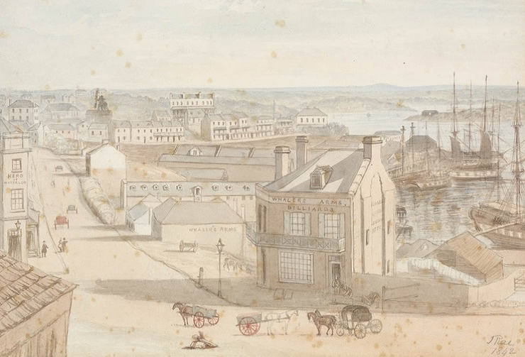 John Rae's drawing "Millers Point from Flagstaff Hill" painted 1842